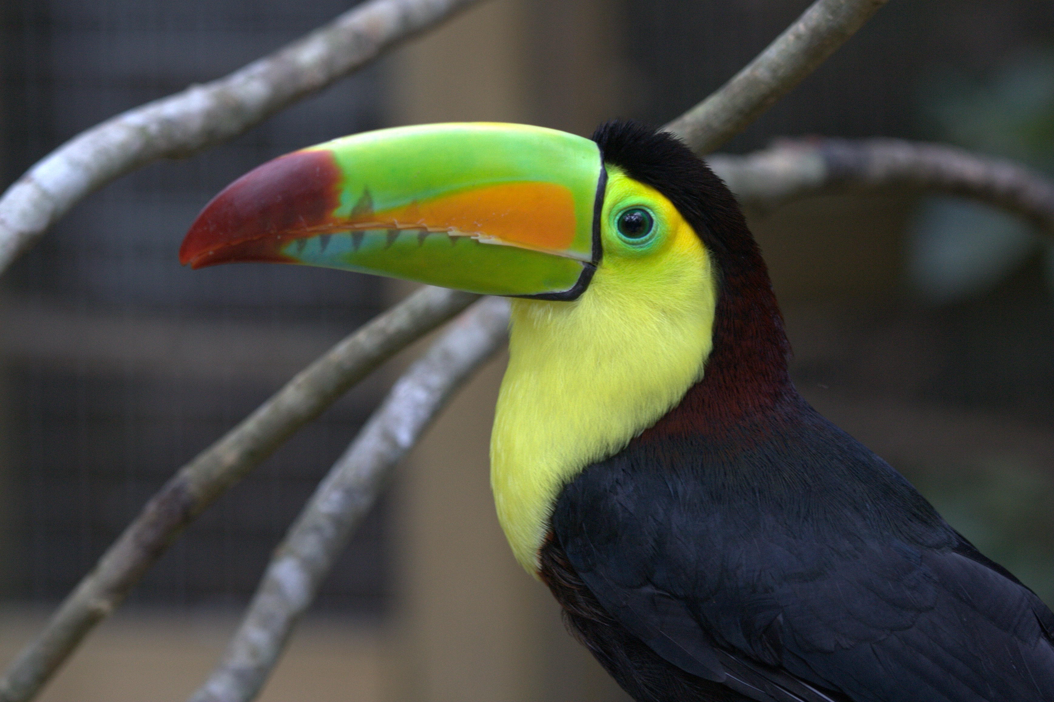 Keel-billed Toucan also known as Sulfur-breasted Toucan, Rainbow-billed Toucan. At Macaw Mountain Bird Park & Nature Reserve, Honduras.